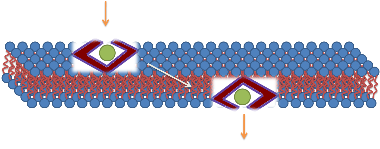 Example of mechanism of direct penetrating peptide